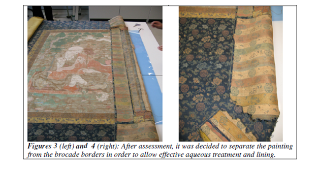 Tibetan Thangka Restoration